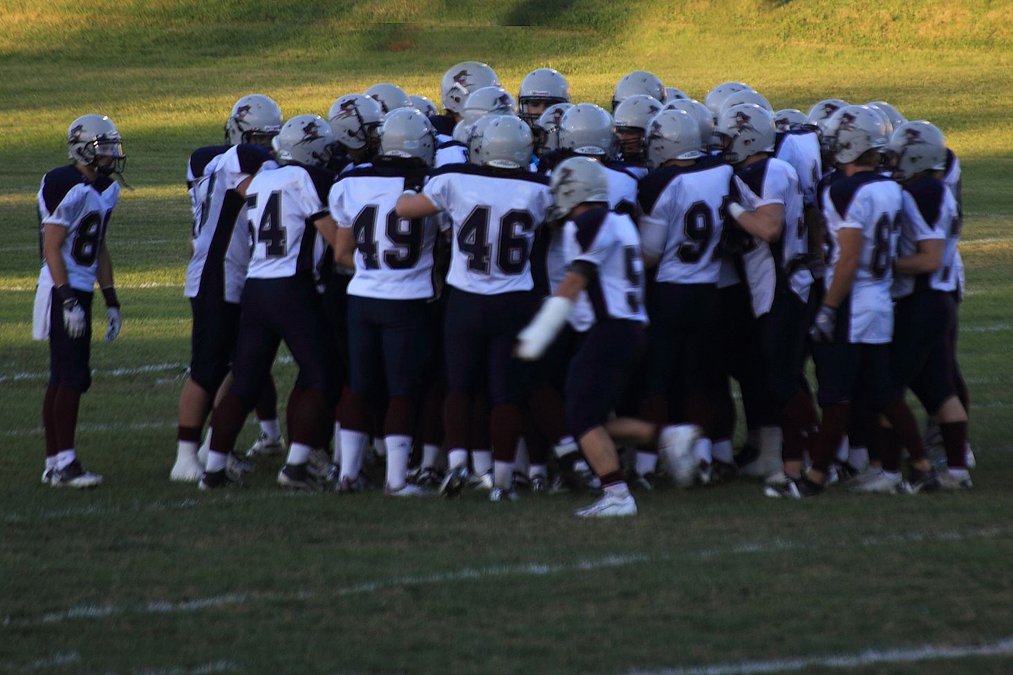 September 8, 2012 7:00 pm game for the Hilltops in the Prairie Football Conference. Canadian Junior Football League teams included Regina and Saskatoon. Regina Thunder were the visitors at Gordie Howe Bowl home to the Saskatoon Hilltops The game ended 36-10 in favour of the Hilltops. Photograph attribution Julia Adamson Pre-game Thunder huddle Attribution: Photograph attribution Julia Adamson please email saskgenweb AT in instances of re-use